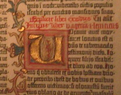 Detail showing the illumination added after printing.